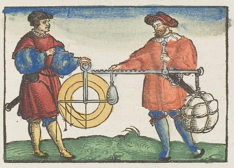 Original image description from the Deutsche Fotothek Waage